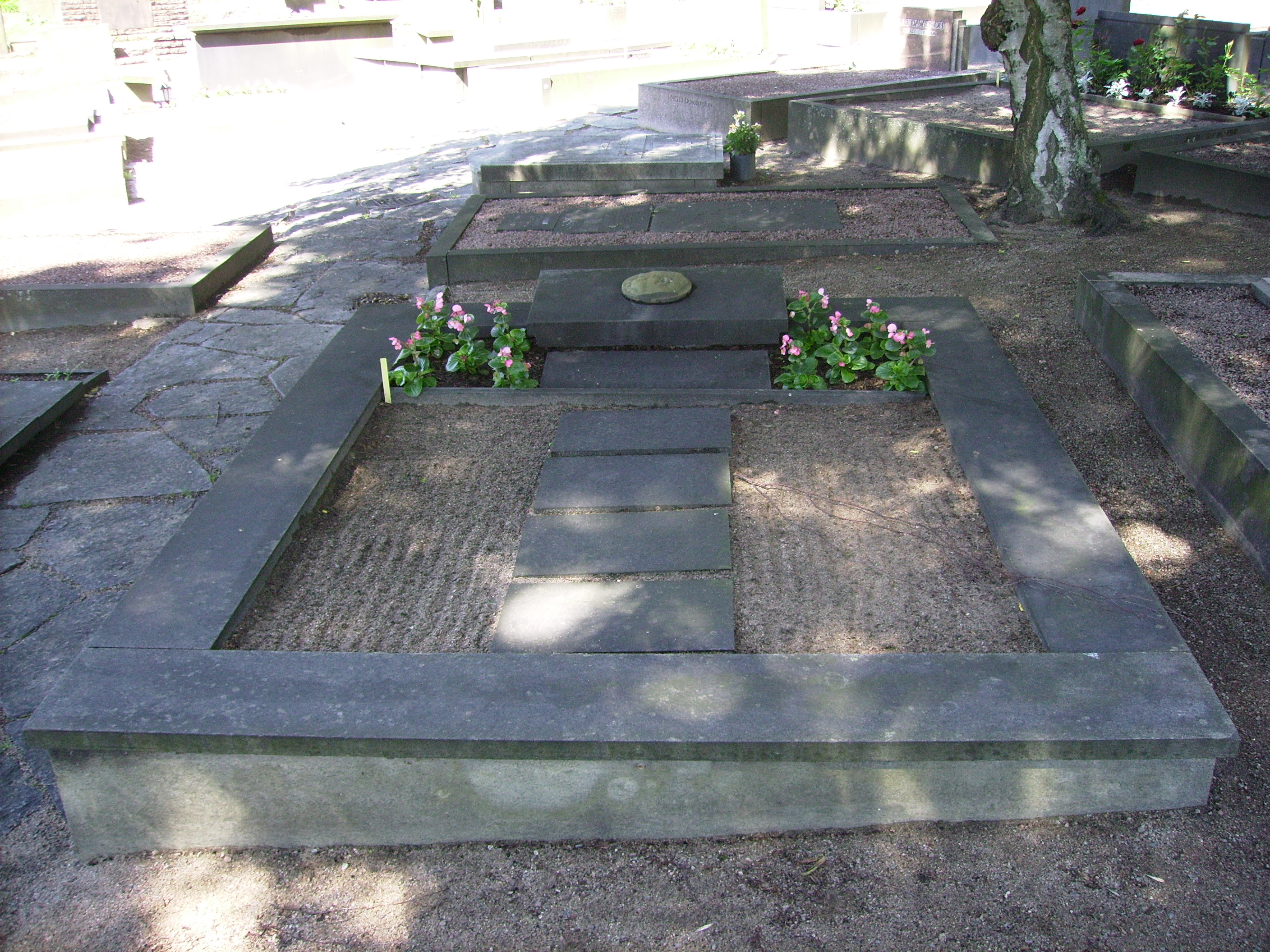 Picture of Herman Lindholm's grave at Örgryte gamla kyrkogård in Gothenburg